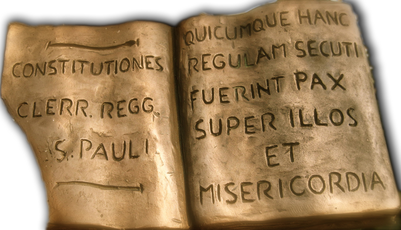 Anthony Maria Zaccaria